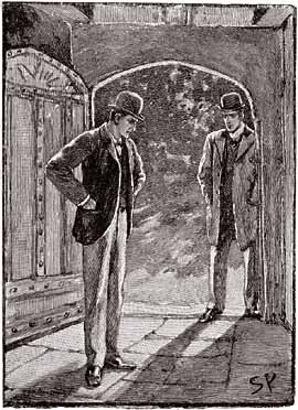 Sherlock Holmes in "The Adventure of the Musgrave Ritual", which appeared in The Strand Magazine in May, 1893. Original caption was "THIS WAS THE PLACE INDICATED."